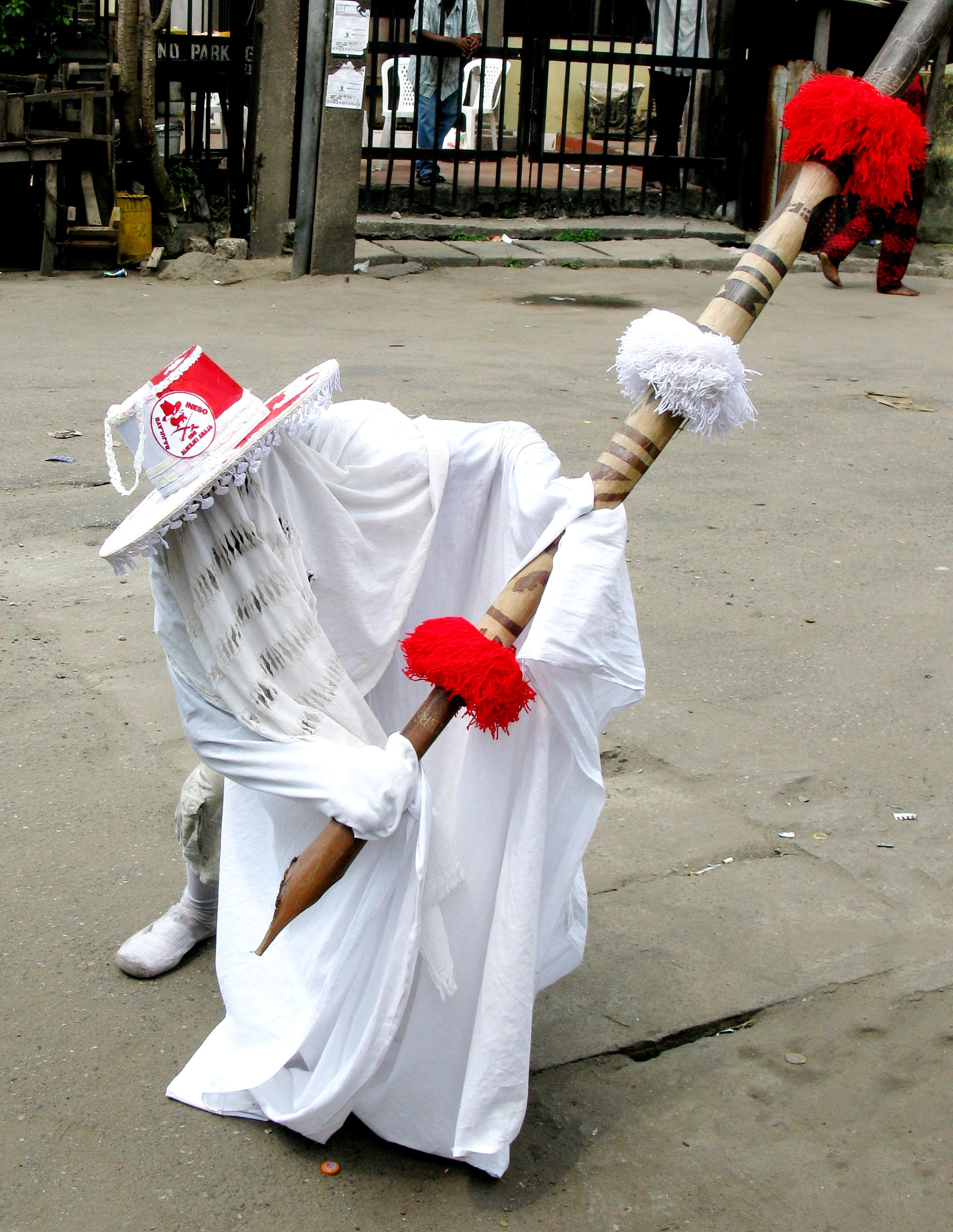 An Eyo Bajulaiye Ineso Masquerade crouching in a typical pose in a residential area of Lagos.